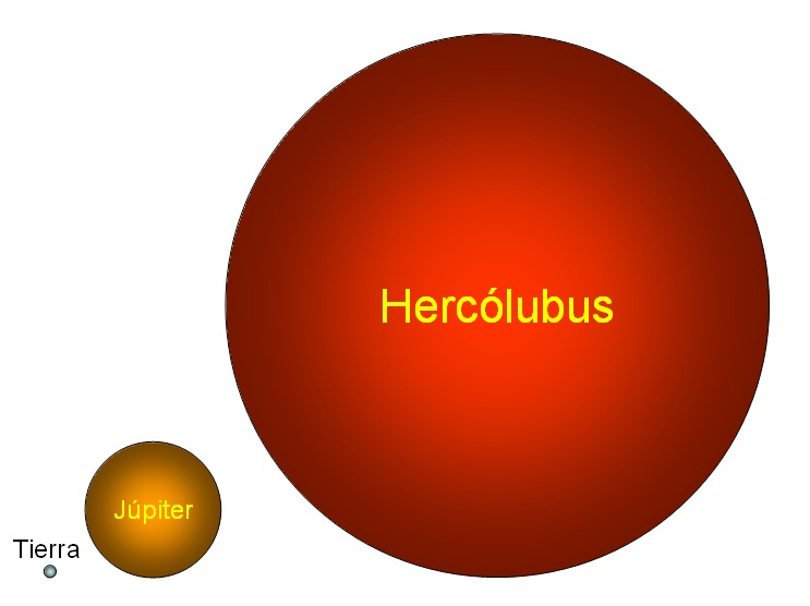 Hercolubus